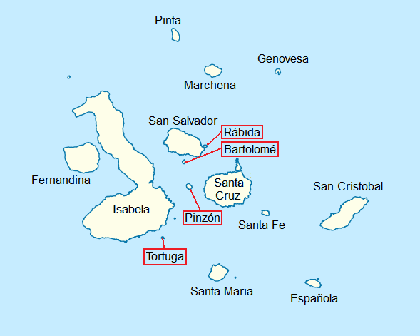 Location map of the Galápagos Islands, Ecuador Equirectangular projection. Geographic limits of the map: * N: 1.8° N * S: 1.6° S * W: 92.1° W * E: 89.1° W